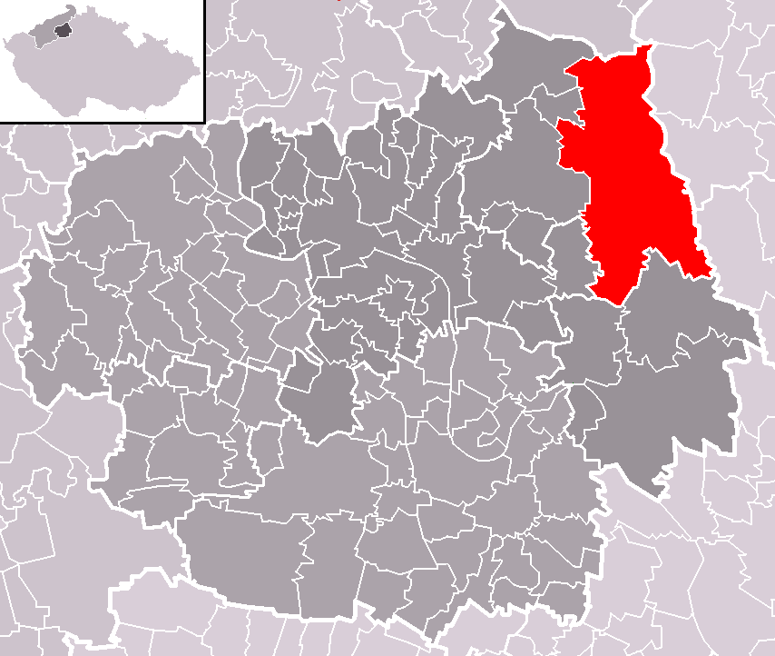 Location of Úštěk town within Litoměřice District and administrative area of Litoměřice as a Municipality with Extended Competence.